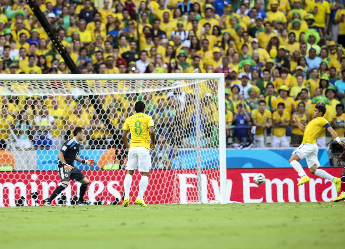 Brazil and Colombia match at the FIFA World Cup 2014-07-04